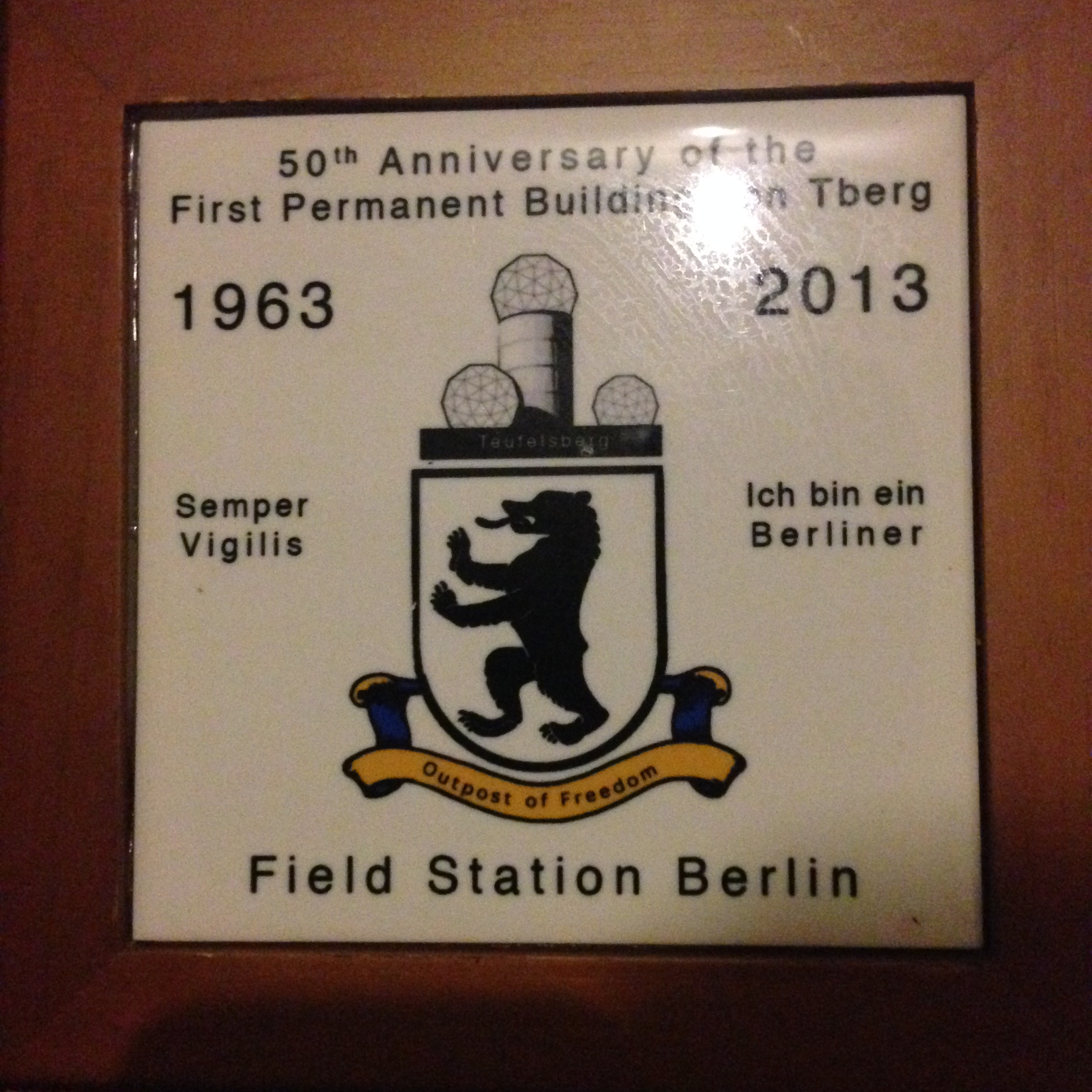 50th Anniversary of the First Permanent Building on Tberg 1963-2013 - Semper Vigilis - Ich bin ein Berliner Outpost of Freedom - Field Station Berlin